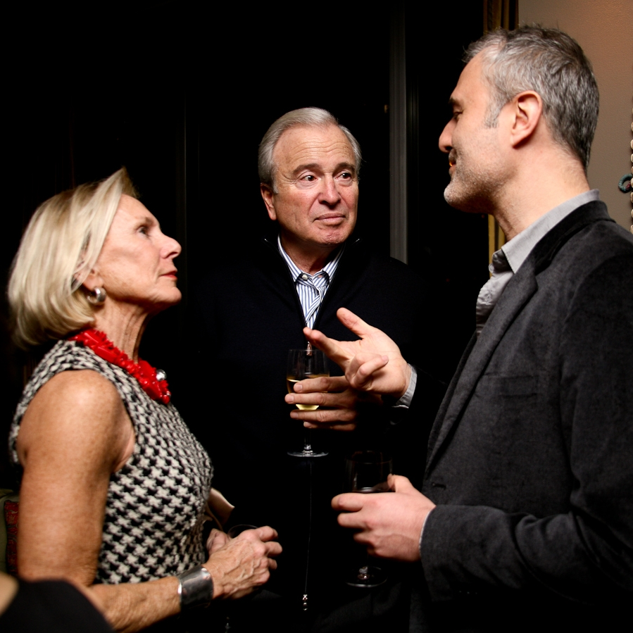 Amanda Urban (left), Ken Auletta (center), and Nick Denton (right) in conversation